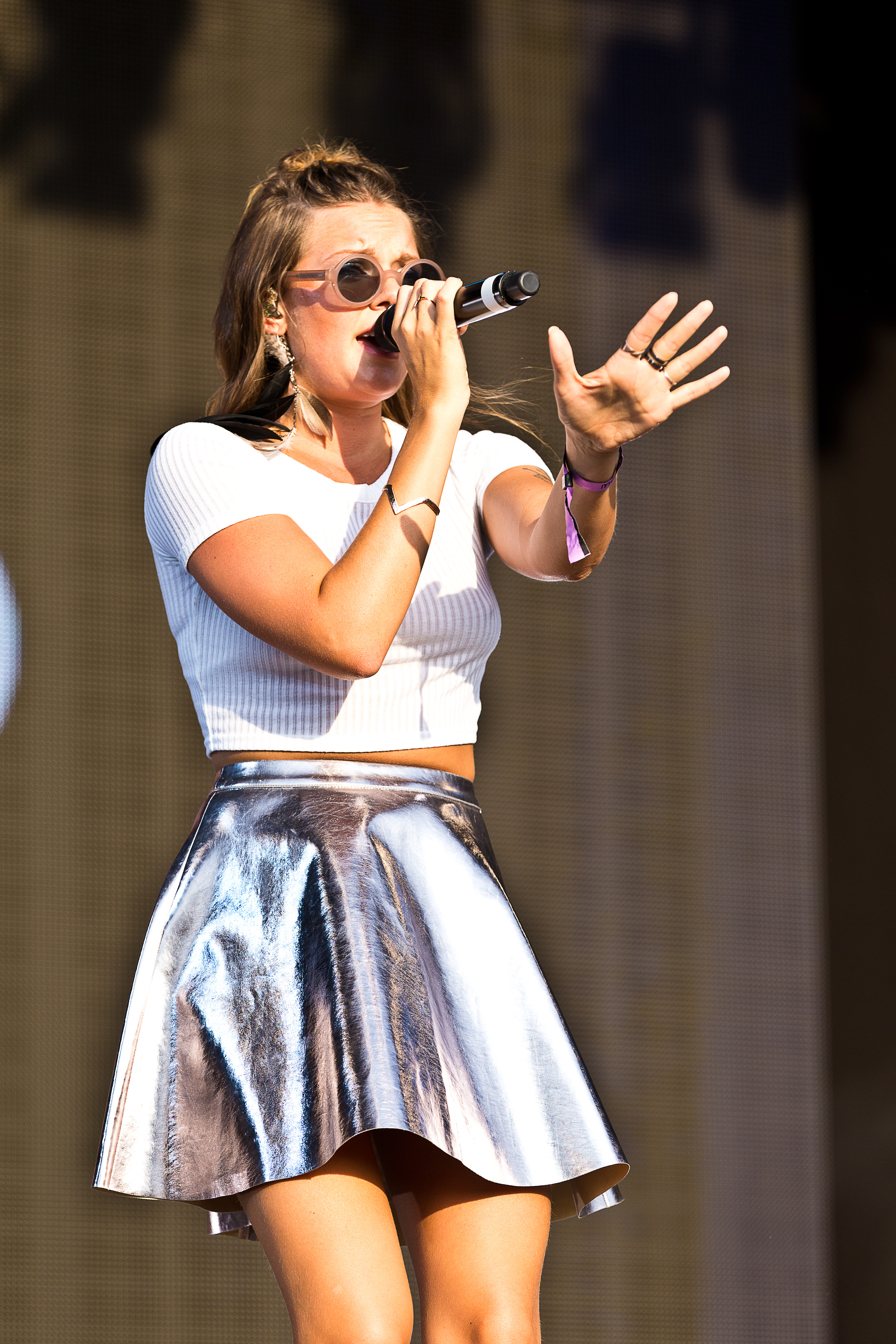 The Swedish singer Tove Lo at the Melt! 2015 in Ferropolis/Germany.